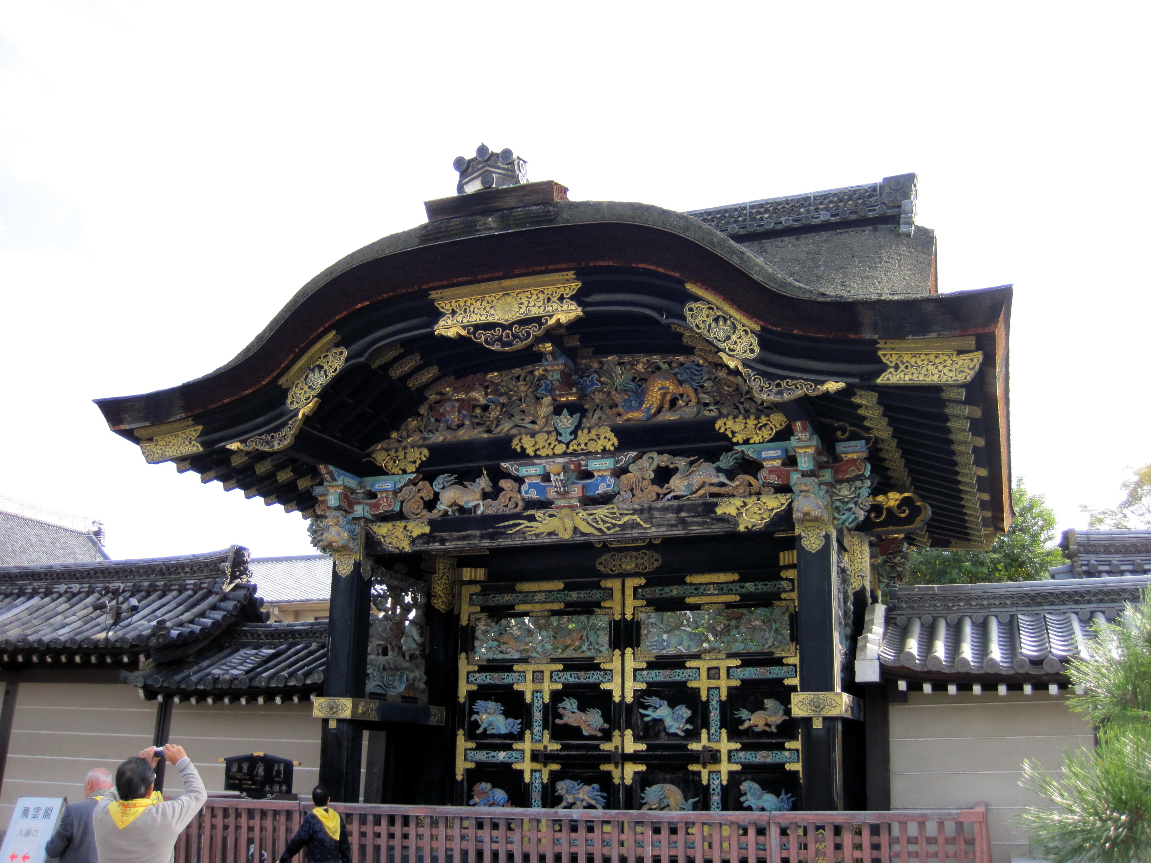 Hongan-ji National Treasure World heritage Kyoto 国宝・世界遺産 本願寺 京都